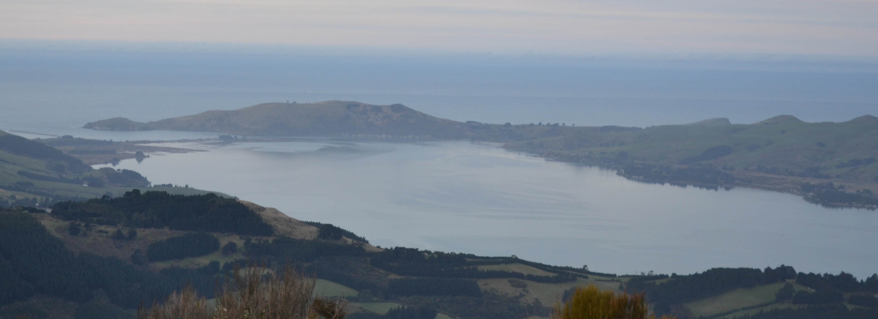 A view of Tairoa Head from Buttar's Peak, near Mount Cargill in Dunedin